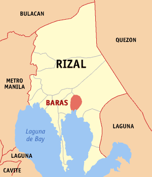 Locator map of Baras in Rizal, Philippines.